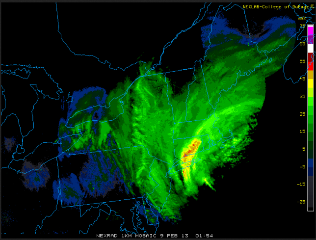 Figure 4. Radar image showing the intensity of the snowfall over Connecticut the evening of 8 February 2013. (from the report)